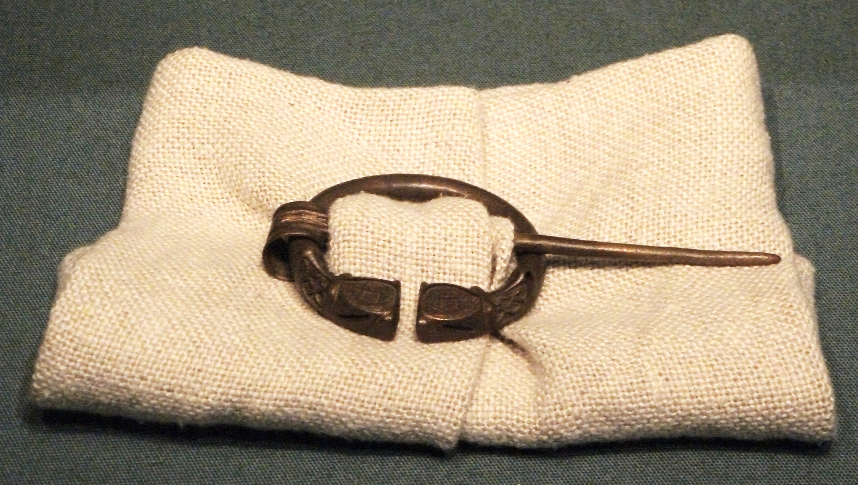 British Museum, Room 41, new display from 2014